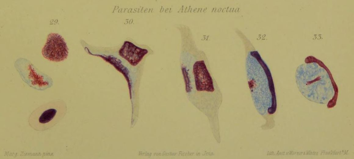 Drawing of Leukocytozoen danilewskyi by Hans Ziemann published in 1898. Drawing shows sexual stages of parasite from the blood of the owl Athene noctua, stained with Romanowsky's stain.